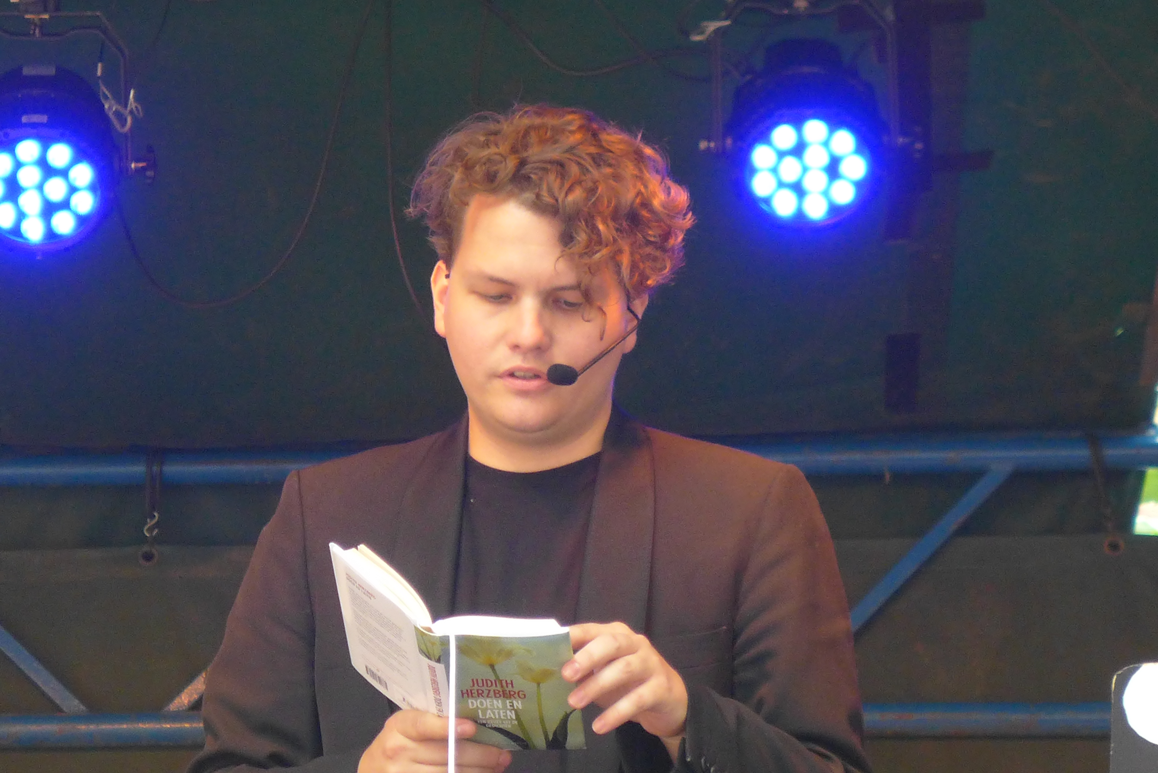 Maarten van der Graaff op het poëziefestival Het Tuinfeest in Deventer, 6 augustus 2016